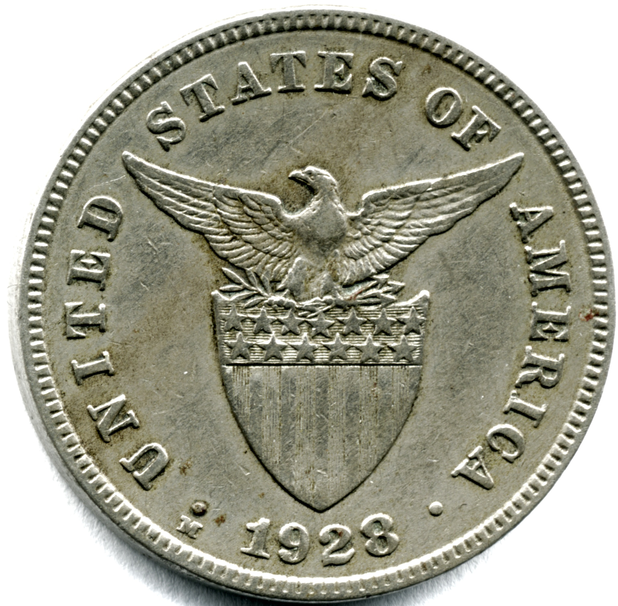 1928 Philippines five centavo